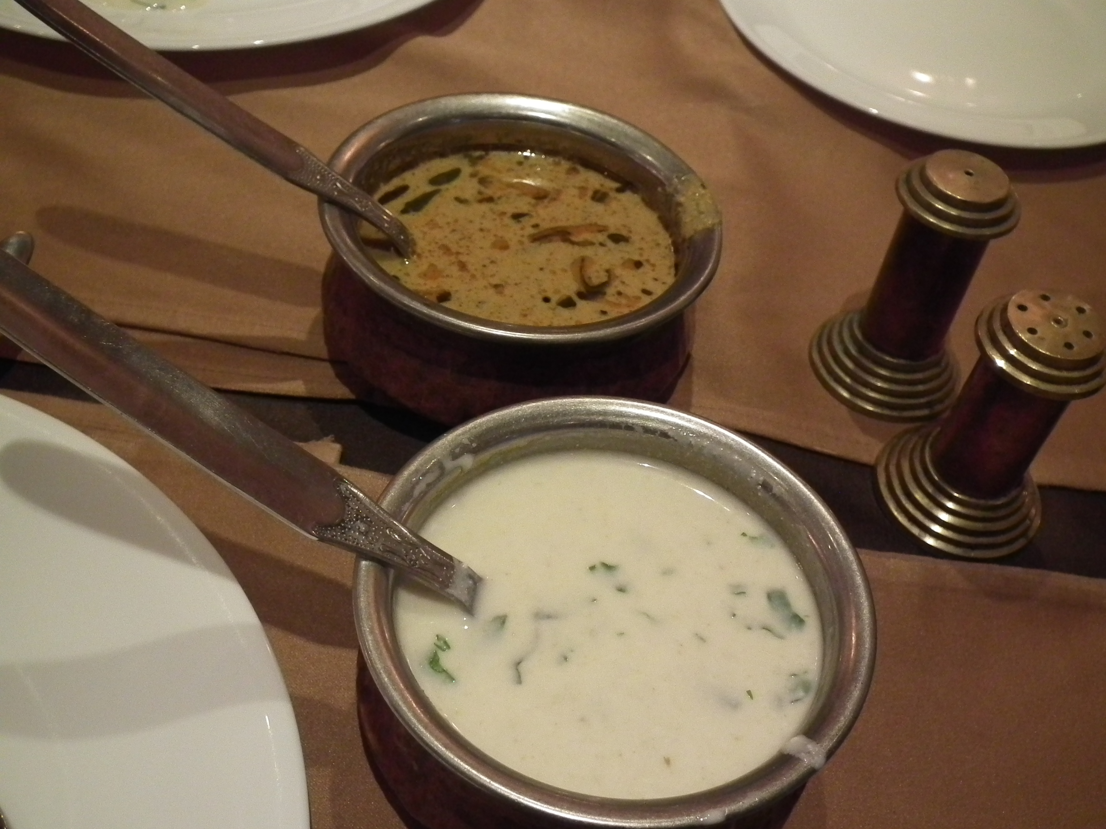 A view from Paradise restaurant Hyderabad India